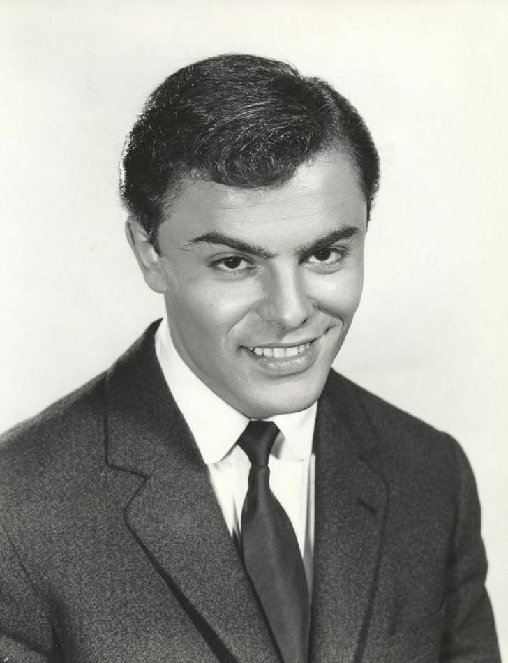 John Saxon in a 1958 publicity photo